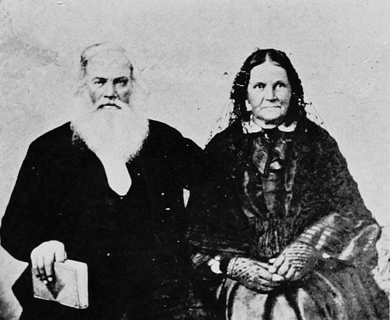 Picture of Hawaiian missionaries Asa Thurston and Lucy Goodale Thurston. The Life and Times of Mrs. Lucy G. Thurston: Wife of Rev. Asa Thurston, Pioneer Missionary to the Sandwich Islands dates this photograph to about 1868 while Portraits of American Protestant missionaries to Hawaii says 1864.